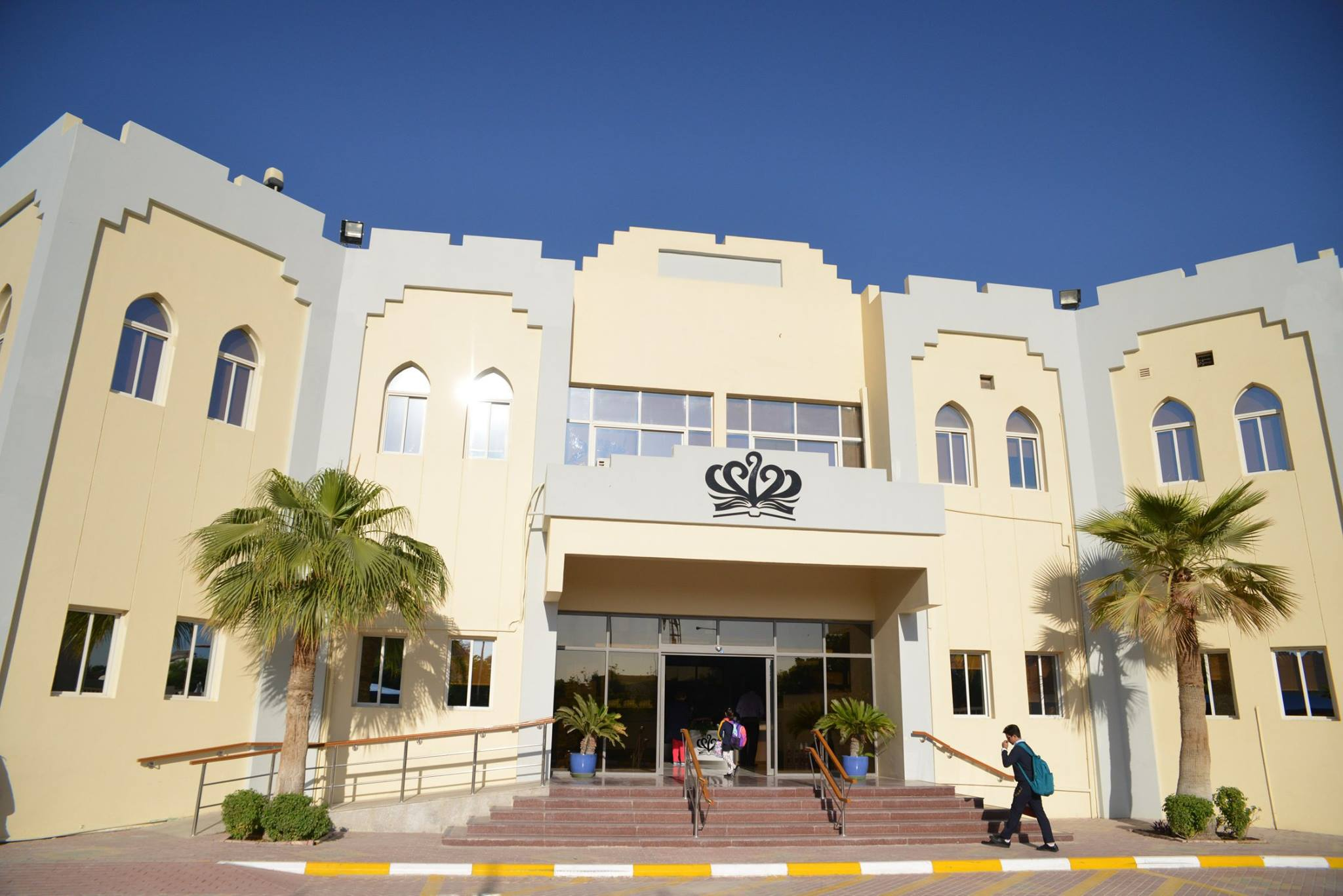 Compass International School